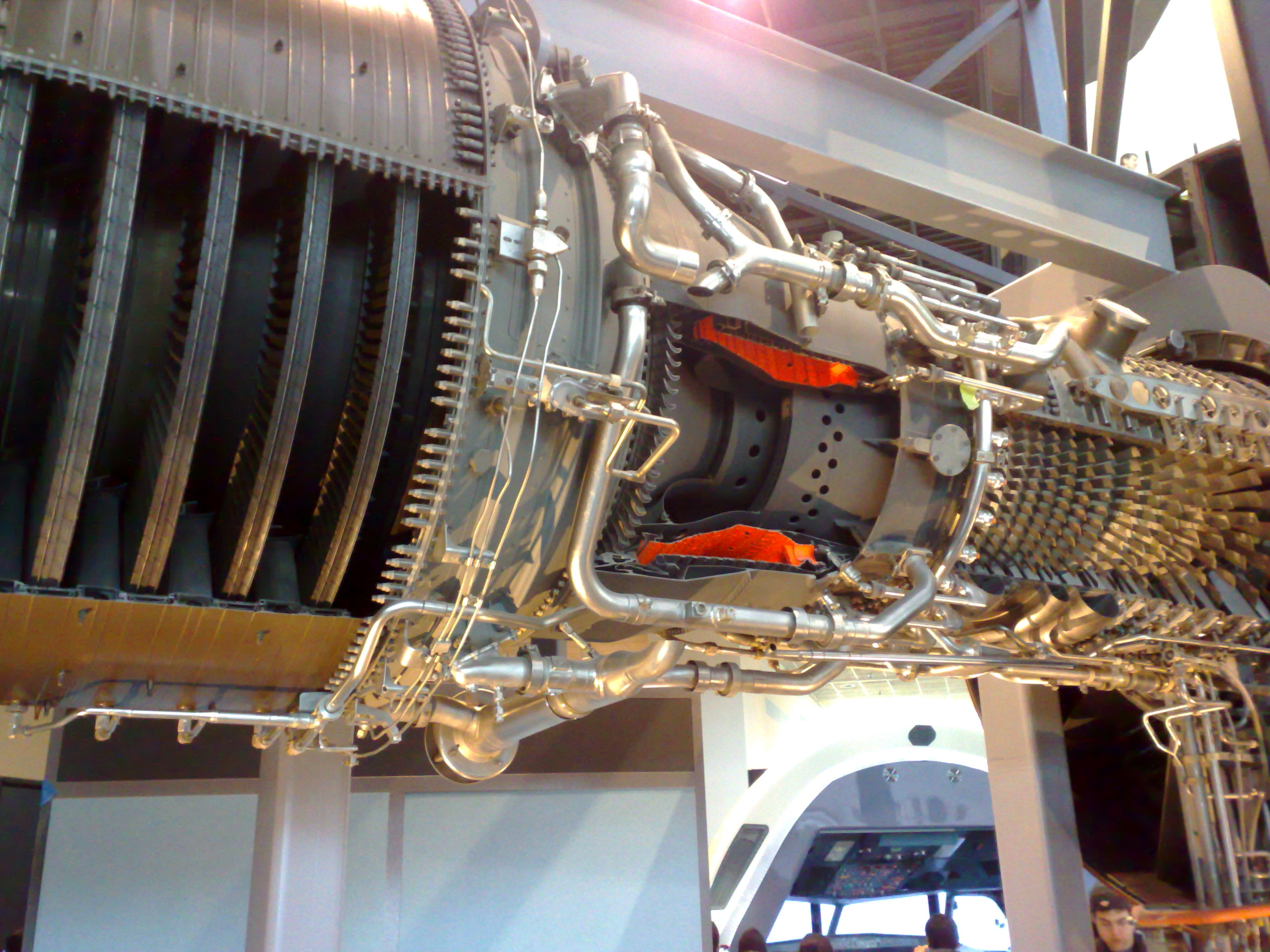 National Air and Space Museum - Washington DC - General Electric CF6 - Compressor and Combustor Cut Out